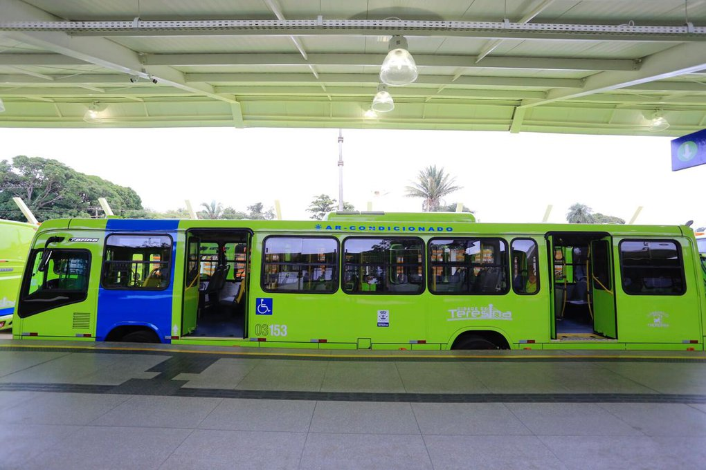 Terminal 6 Itararé